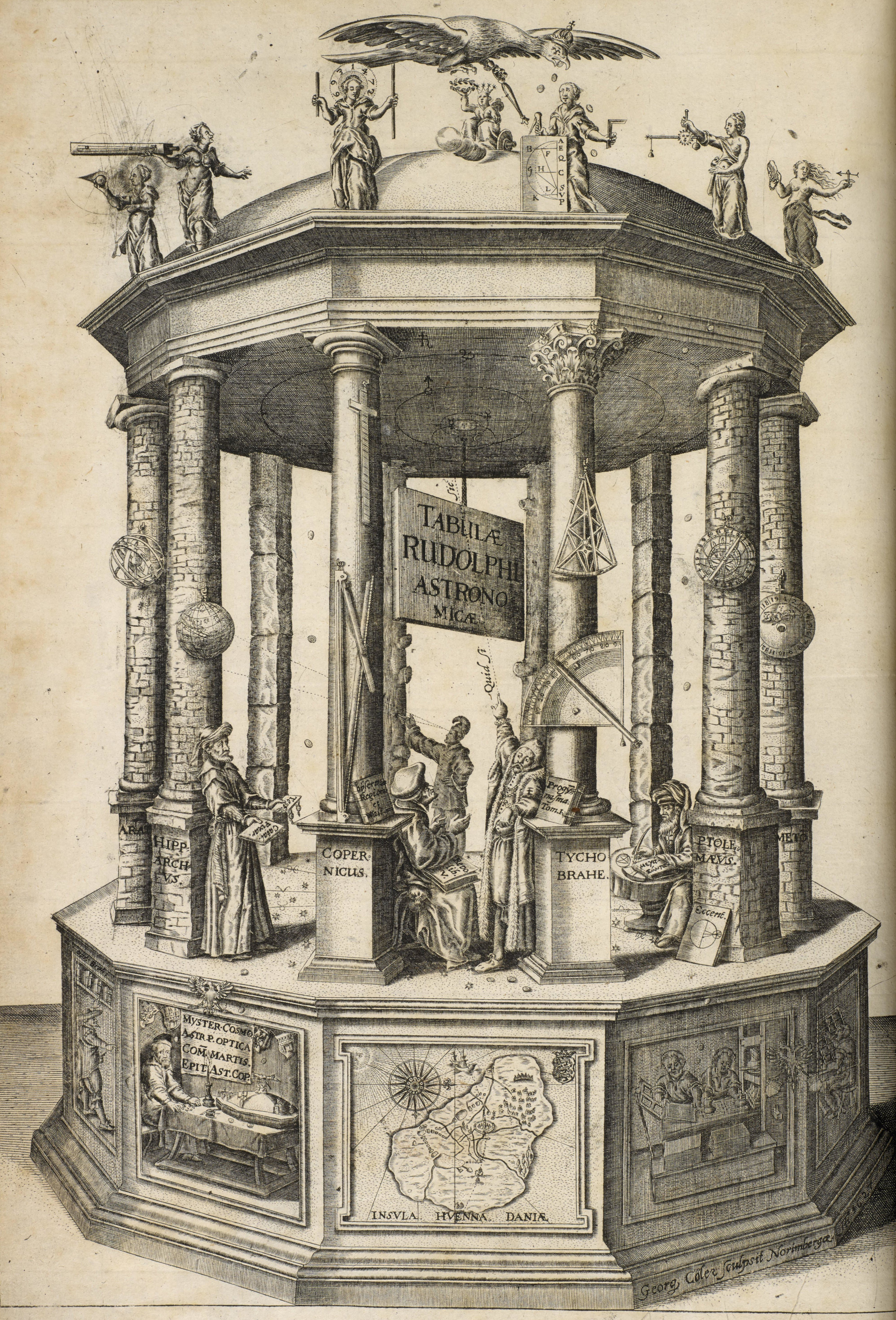 Frontispiece of the Rudolphine Tables: Tabulae Rudolphinae: quibus astronomicae ... by Johannes Kepler (1571–1630).